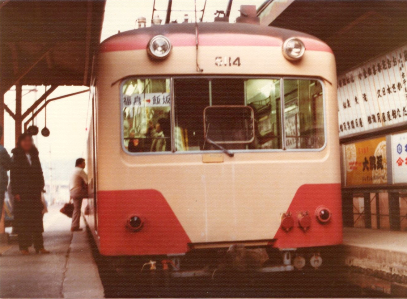 FukushimaKotsu_moha5114_19821211sat